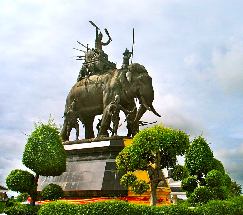 Memorial of Queen Suriyothai, Ayutthaya Province, Thailand